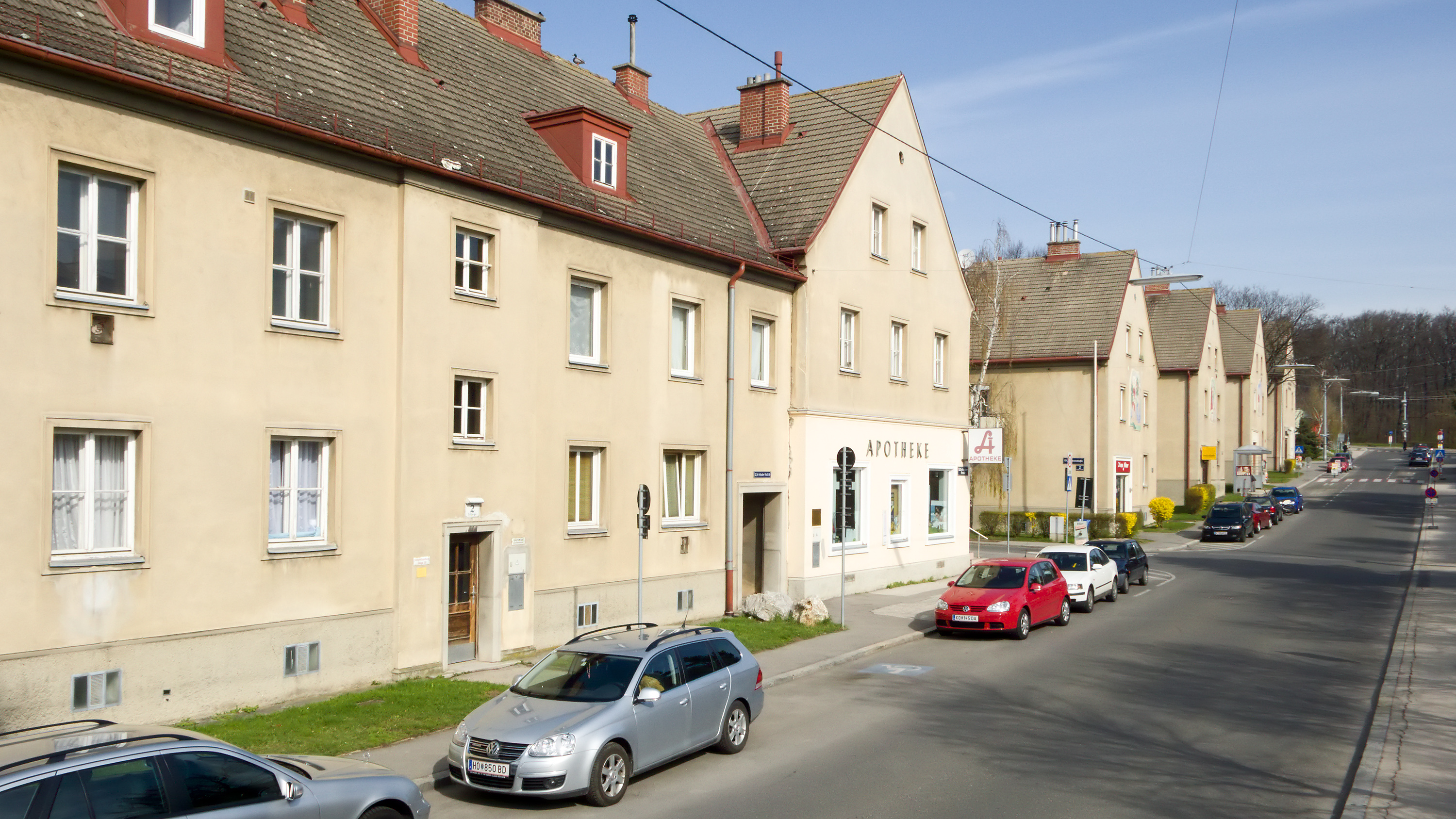 Dr.-Schober-Straße in Vienna Hietzing